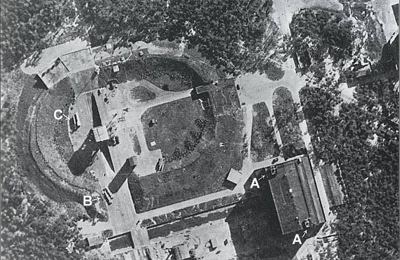 1943 Royal Air Force reconnaissance photograph of V-2 rockets at Peenemünde Test Stand VII English captions of this photograph in published works (Not all sources label each object with the same letter) This photograph of Test Stand VII, taken on June 23, 1943, was the first to reveal rockets. Two A-4s (V-2's) at least thirty-eight feet long are indicated lying horizontally at (B). Buildings where rockets were stored are indicated at (A).[1] German rockets (A) and Meillerwagen trailers (B) were quickly spotted at Peenemünde in June 1943; but the long object pointing out to sea from the airfield--seen on the same photograph--was wrongly interpreted as 'a length of pipe' connected with offshore dredging operations. Only in December was it realised that this structure (C) and the adjacent one (D) were prototype flying-bomb catapults. All A 4 rockets were test-fired either from the elliptical Test Stand VII (E) or from its triangular foreshore.[2] Test Stand VII as photographed by the United States Air Force.[sic] A. A V-2 on its Meillerwagen. B. A mobile test stand. C. The assembly hall for mobile test stands, where finished V-2s were stored. N--north.[3] An RAF photograph taken on the 23rd of June, 1943, provides a view of two V-2 rockets lying side by side (A) within the elliptical earthworks at Peenemünde, where the missiles were tested. Also visible are giant cranes (B) and the missile storage building (C).[4] An aerial photoreconnaissance plane was sent on June 23, 1943 and obtained the first photo of the V-2 rocket (Figure 18). This aerial photo shows Test Stand VII at the German Testing Center with a V2 rocket on its trailer inside of the test firing area. It also shows possible anti-aircraft gun positions on top of an adjacent building.[5] Peenemünde before and after the bombing[6]